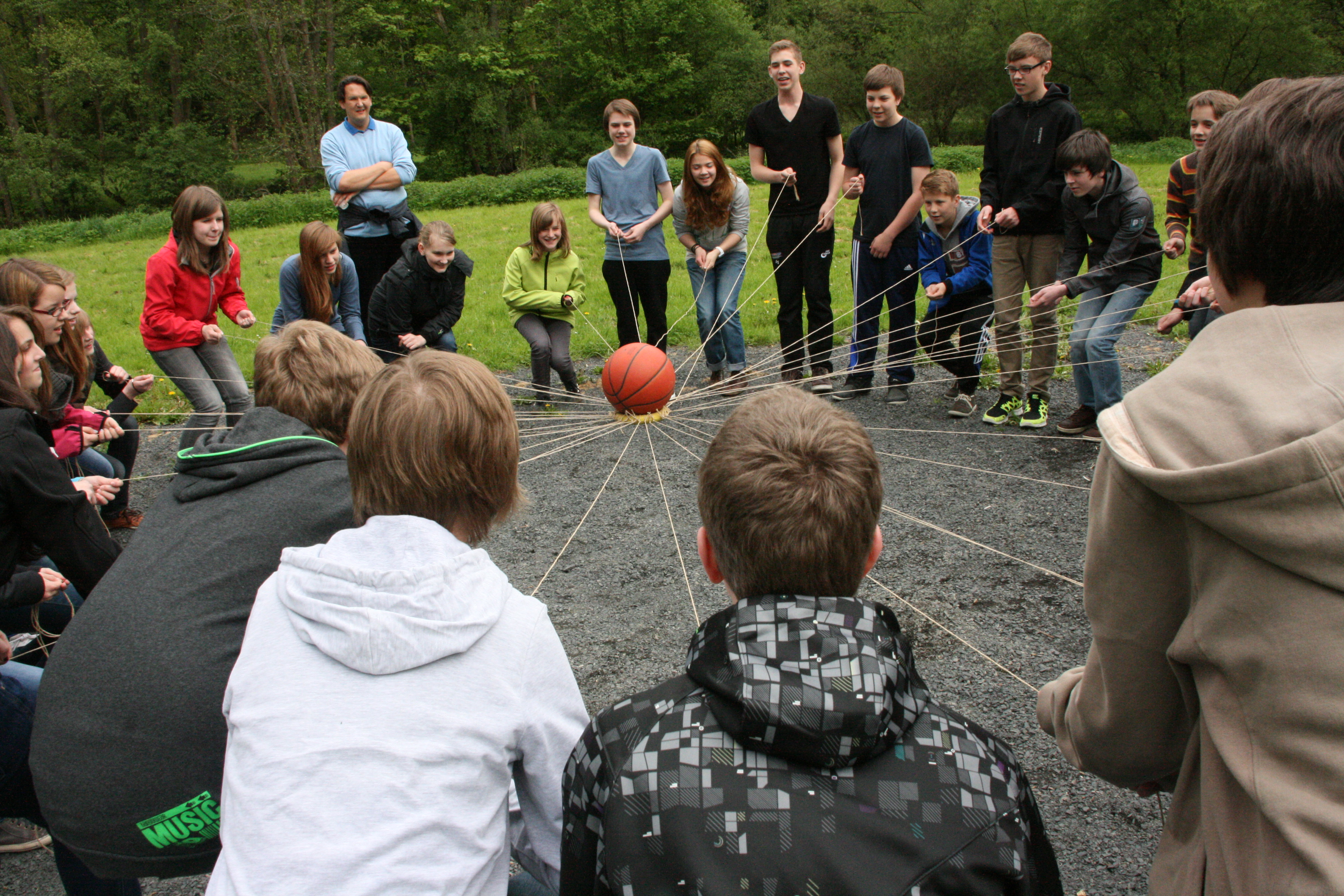 Kooperative Spiele bei den "Tagen der Orientierung"